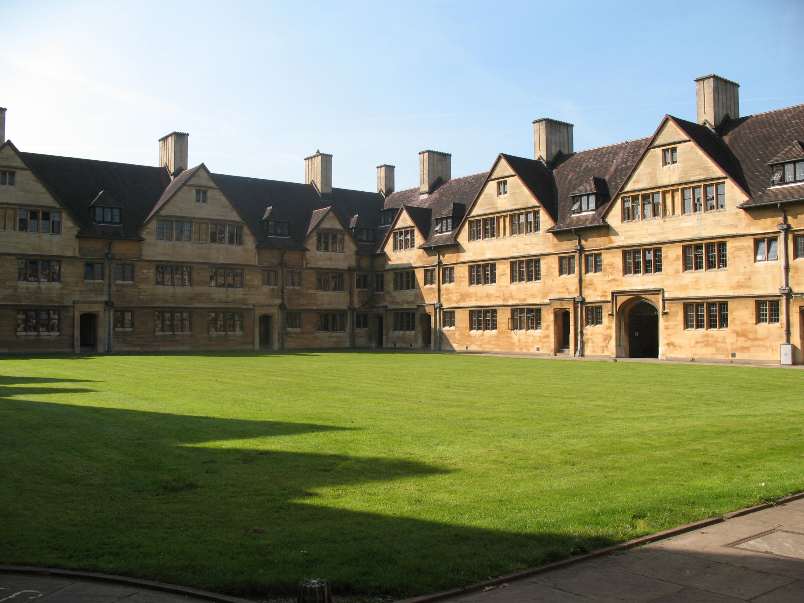 Wills Hall, University of Bristol.